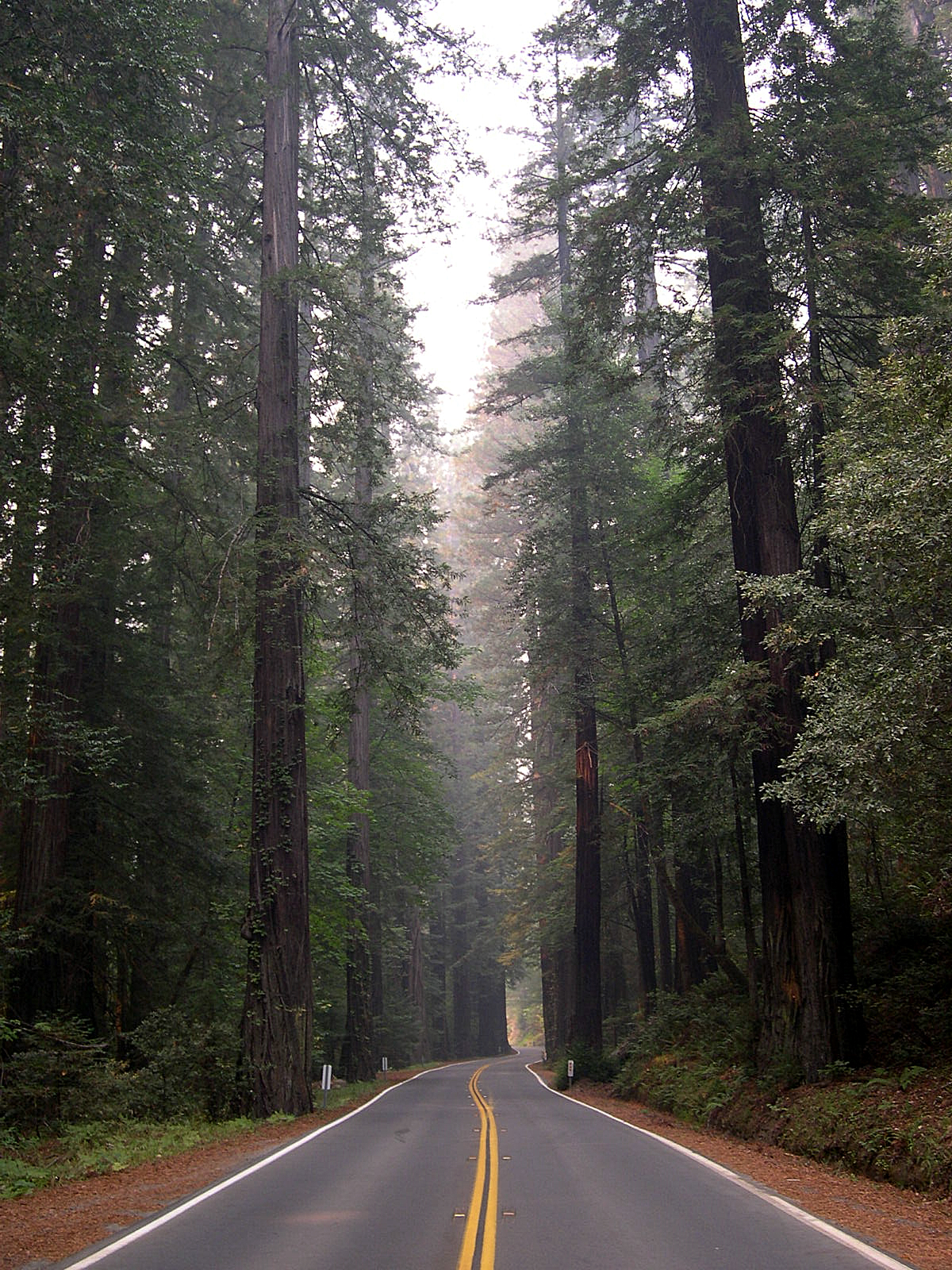 Coast Redwood Sequoia sempervirens. Avenue of the Giants, Humboldt Redwoods State Park, California